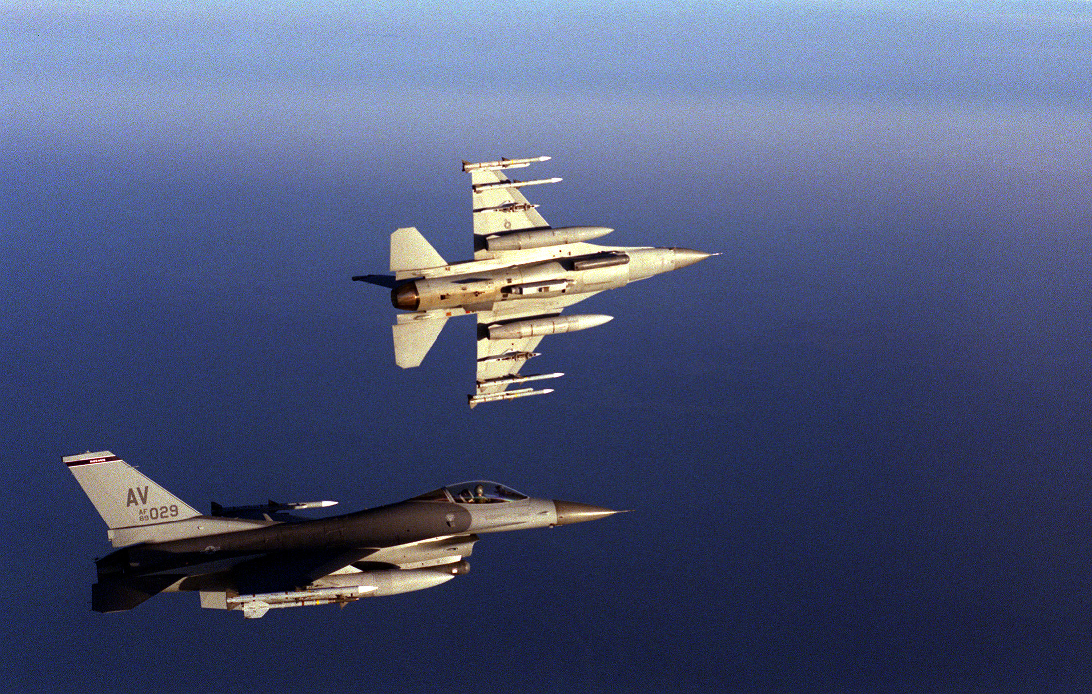 One F-16 Fighting Falcon banks away from his wingman as they fly a Combat Air Patrol or CAP mission for NATO Operation Allied Force on May 3, 1999. Operation Allied Force is the air operation against targets in the Federal Republic of Yugoslavia. The Fighting Falcons flying the CAP missions provide air cover for other NATO aircraft flying the strike missions. These Fighting Falcons are attached to the 510th Fighter Squadron, Aviano Air Base, Italy.